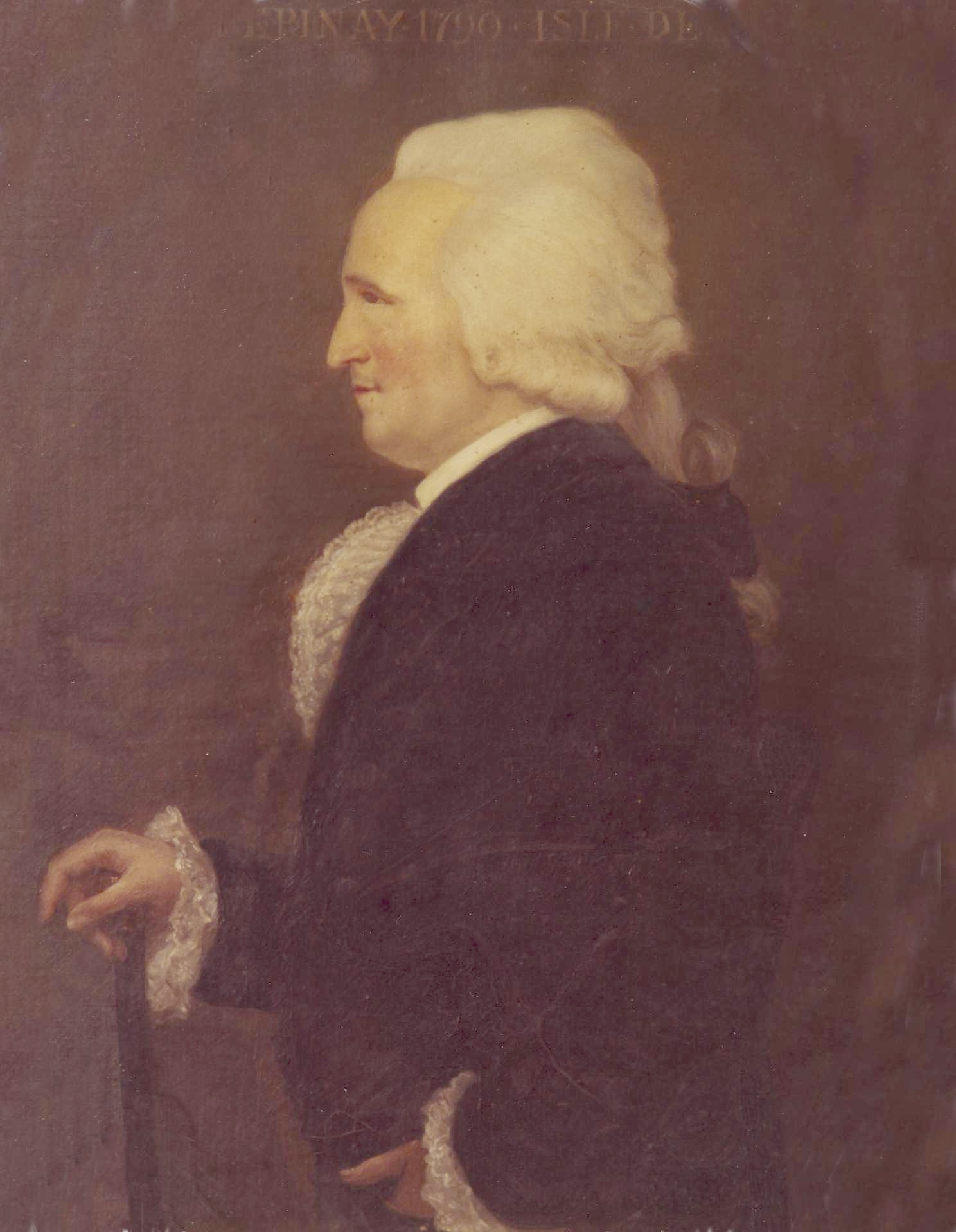 Antoine Caëz d'Épinay, père d'Adrien d'Épinay (Isle de France 1790).